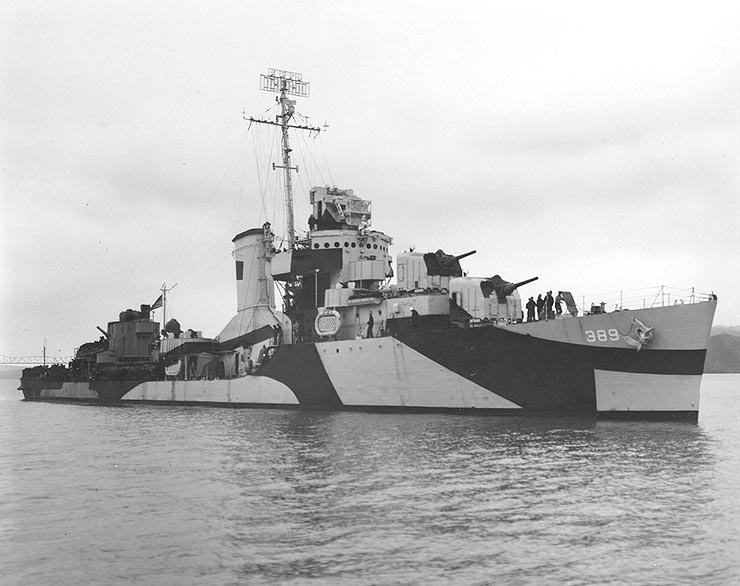 USS Mugford (DD-389) Removed caption read: Photo # 19-N-65301 USS Mugford off the Mare Island Navy Yard, 28 April 1944